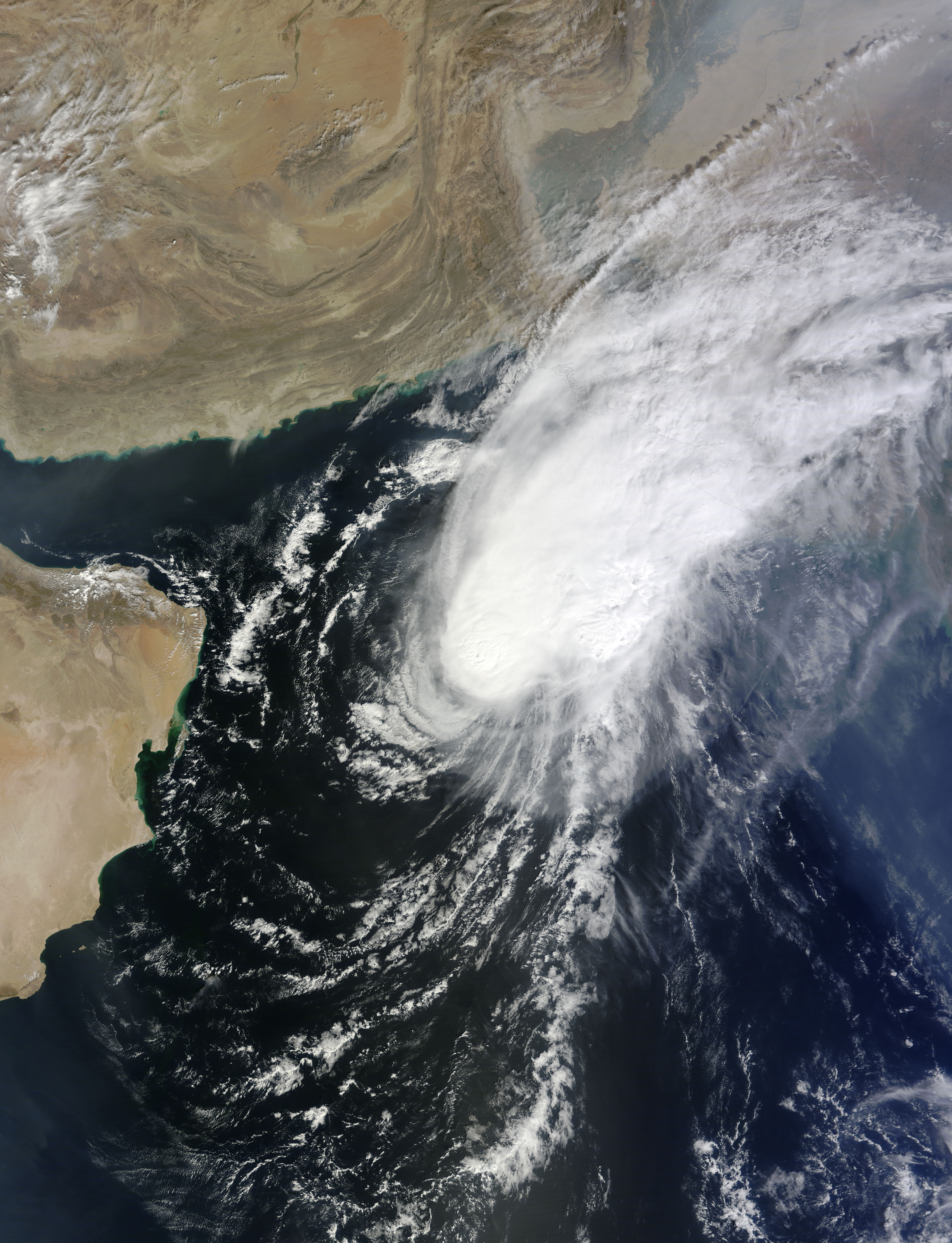 Tropical Cyclone Nilofar (04A) in the Arabian Sea